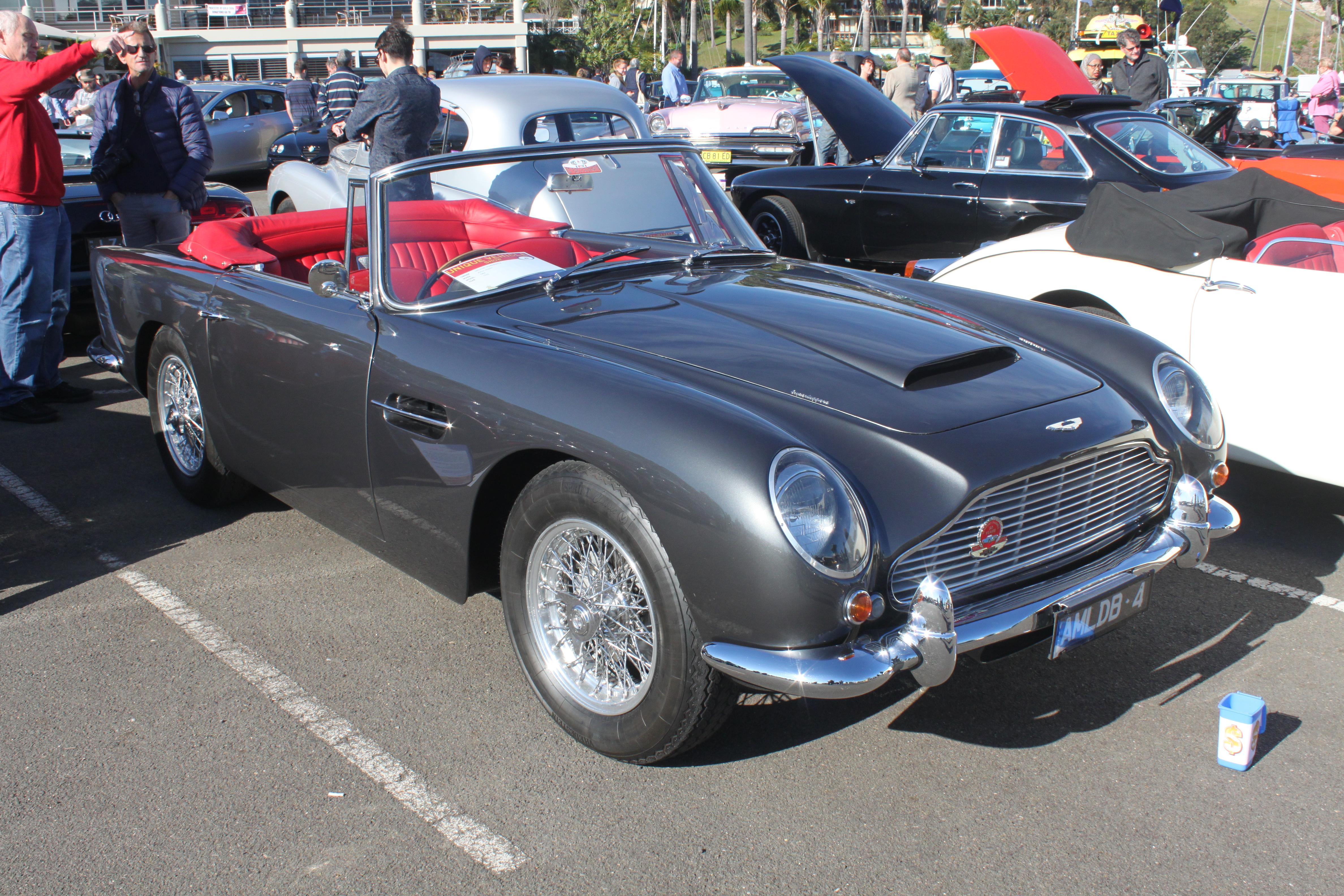 RMYC Unique Car Show, Newport, NSW July 2015